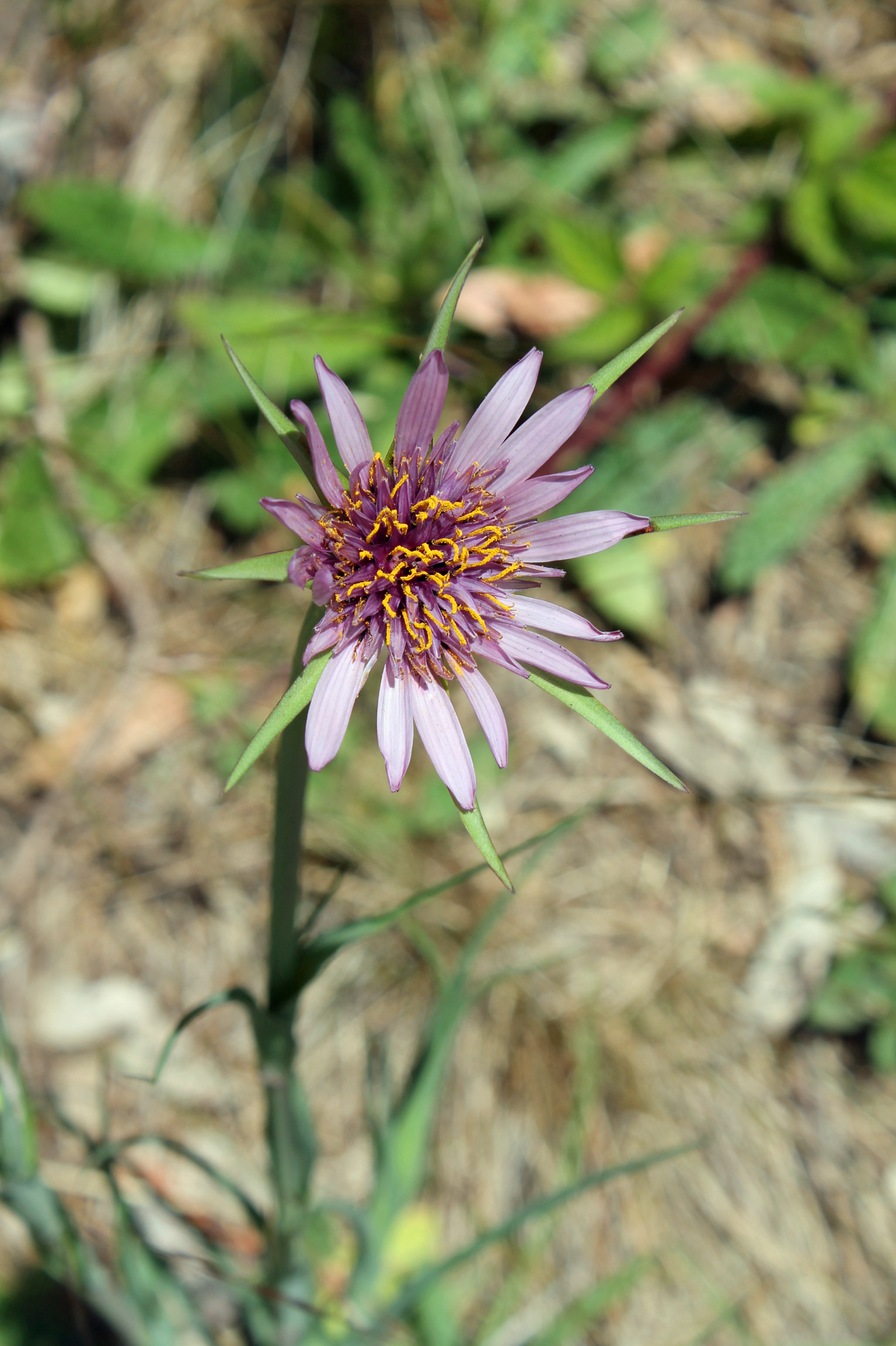 Tragopogon porrifolius at Sibley Volcanic Regional Preserve in Oakland. It was in full sun.